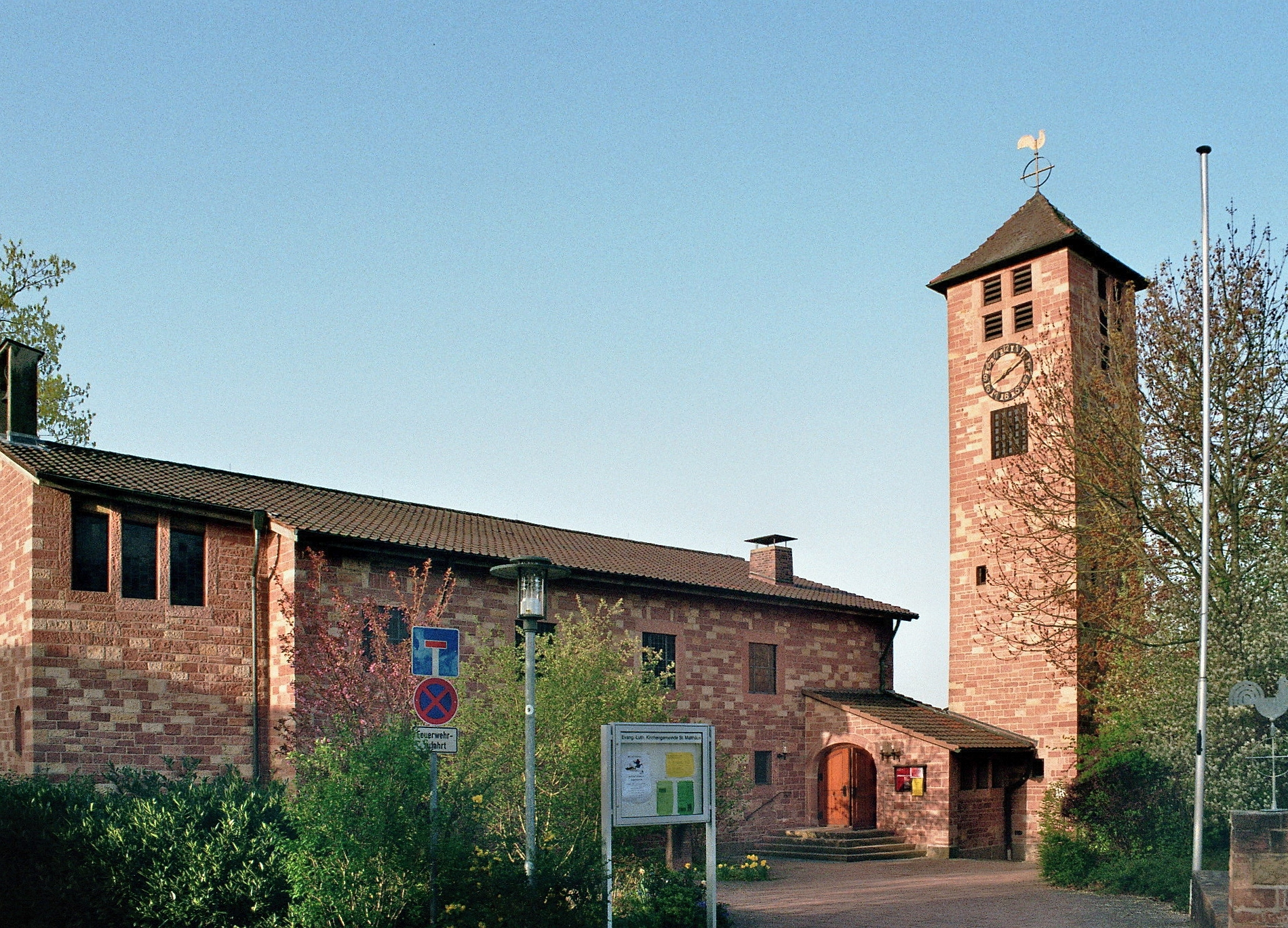 Protestant church St. Matthäus in Schweinheim, Aschaffenburg, Bavaria, Germany